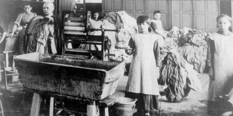 Unidentified Magdalen Laundry in Ireland, c. early 20th century.